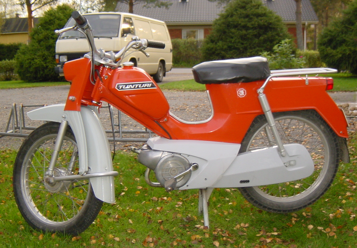 A Tunturi 1972 moped